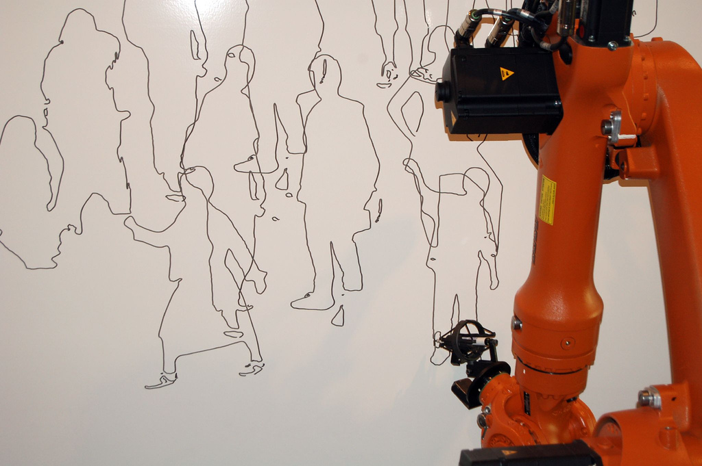 A KUKA industrial robot is drawing silhouettes after taking a picture. This is an art installation from German artist group robotlab. Robofestival 2006,Norway